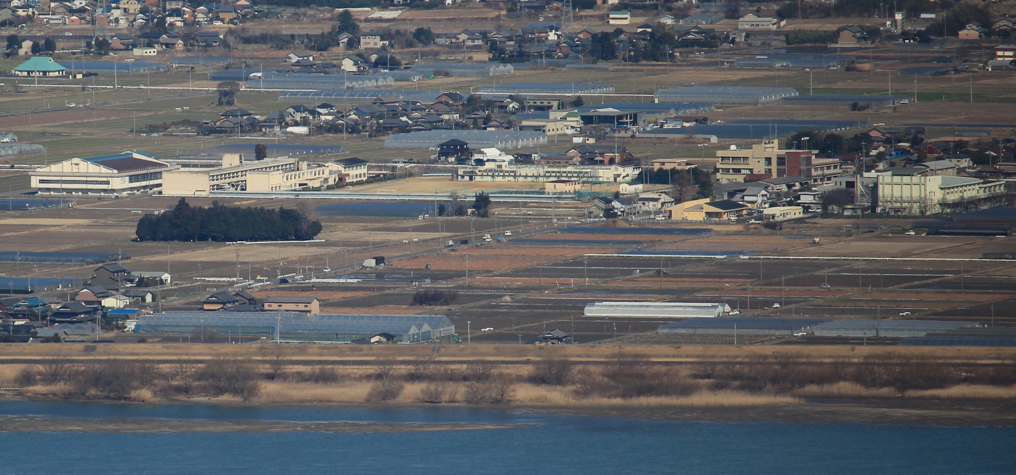 Aisai City Tatsuta Junior high school and Kiso River seen from Mount Tado of Yoro Mountains in Aisai, Aichi Prefecture, Japan.